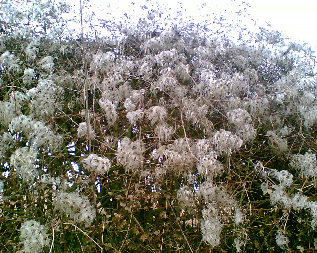 Seed heads of Clematis vitalba, known colloquially as "Old man's beard". Taken in the UK in January.